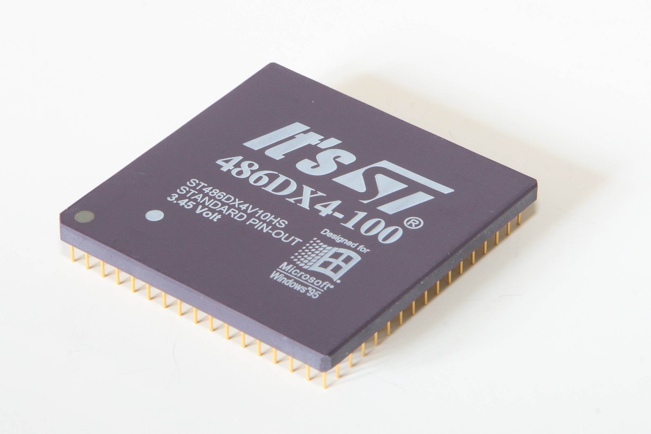 ST 486 DX4 100MHz CPU Camera data Camera Canon EOS 30D Lens Canon EF 24-70 mm 2.8 L USM Focal length 70 mm Aperture f/19 Exposure time 15 s Sensivity ISO 100 Image Editing Programs Canon Digital Photo Professional